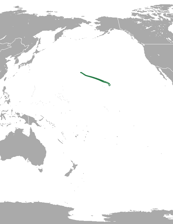 Hawaiian Monk Seal (Monachus schauinslandi) range